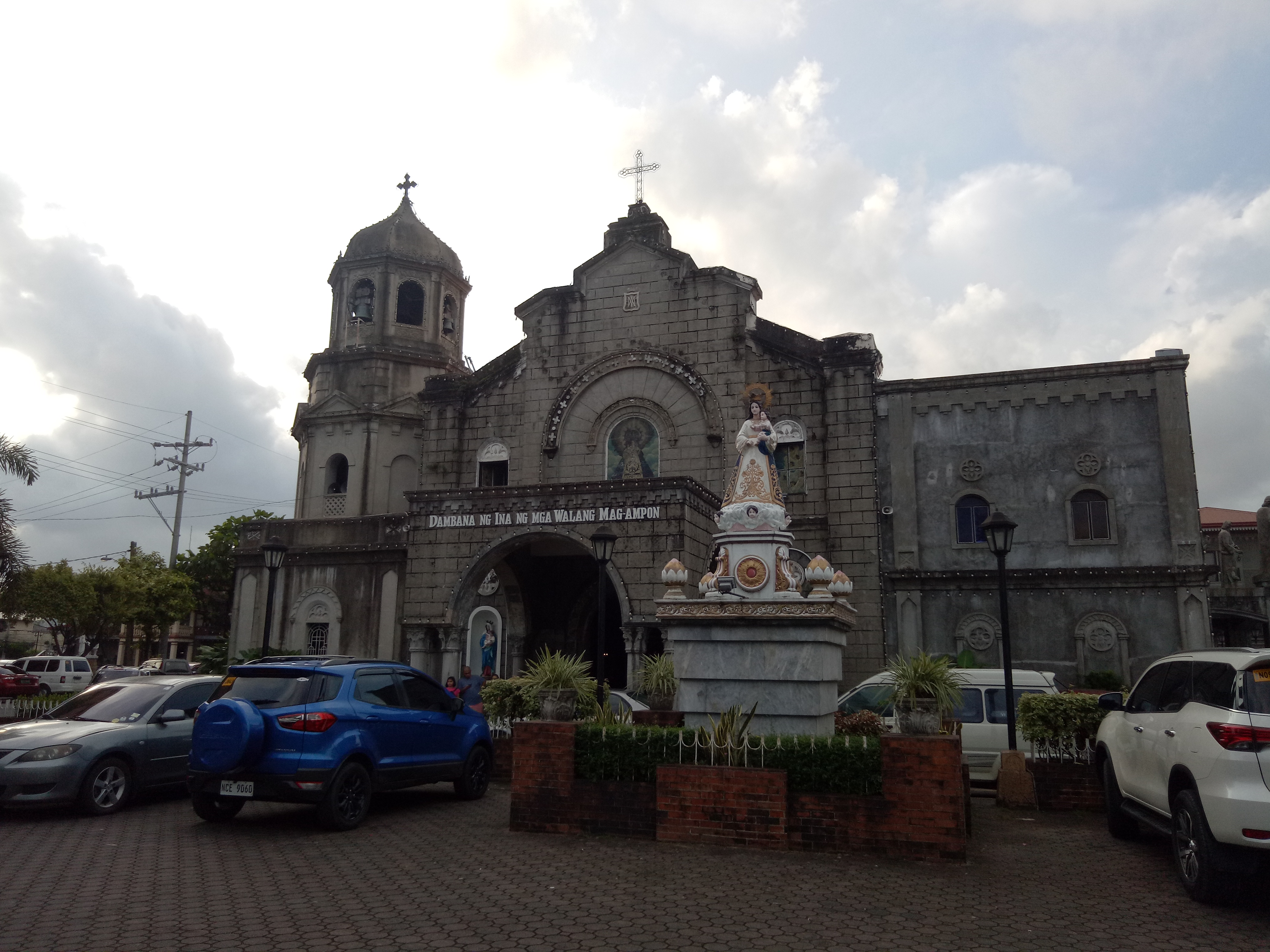 The Diocesan Shrine and Parish of Our Lady of the Abandoned (Spanish: Santuario y Parroquia de Nuestra Señora de los Desamparados; Tagalog: Dambana at Parokya ng Ina ng mga Walang Mag-Ampon) is a Roman Catholic church in Marikina, the Philippines. The church enshrines one of several images of the Virgin Mary venerated as miraculous, which has received Papal recognition.